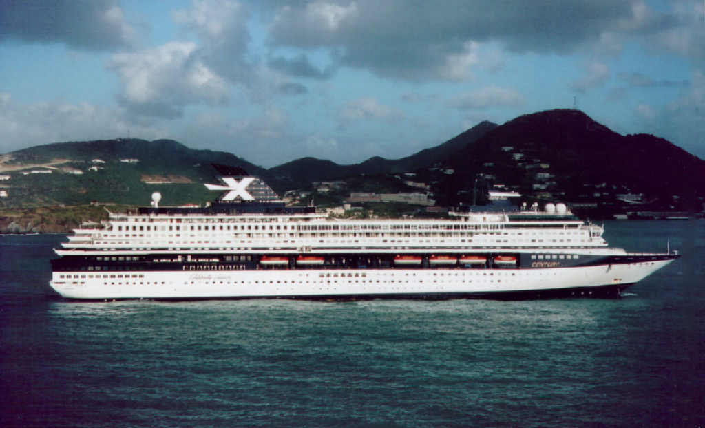 Starboard side of the Century, moored at Philipsburg, Sint Maarten, Netherlands Antilles. Name: Century IMO Number: 9072446 MMSI Number: 311479000 Callsign: C6FU5 Length: 250 m Beam: 32 m 2008 February Celebrity Century 2015 May SkySea Golden Era